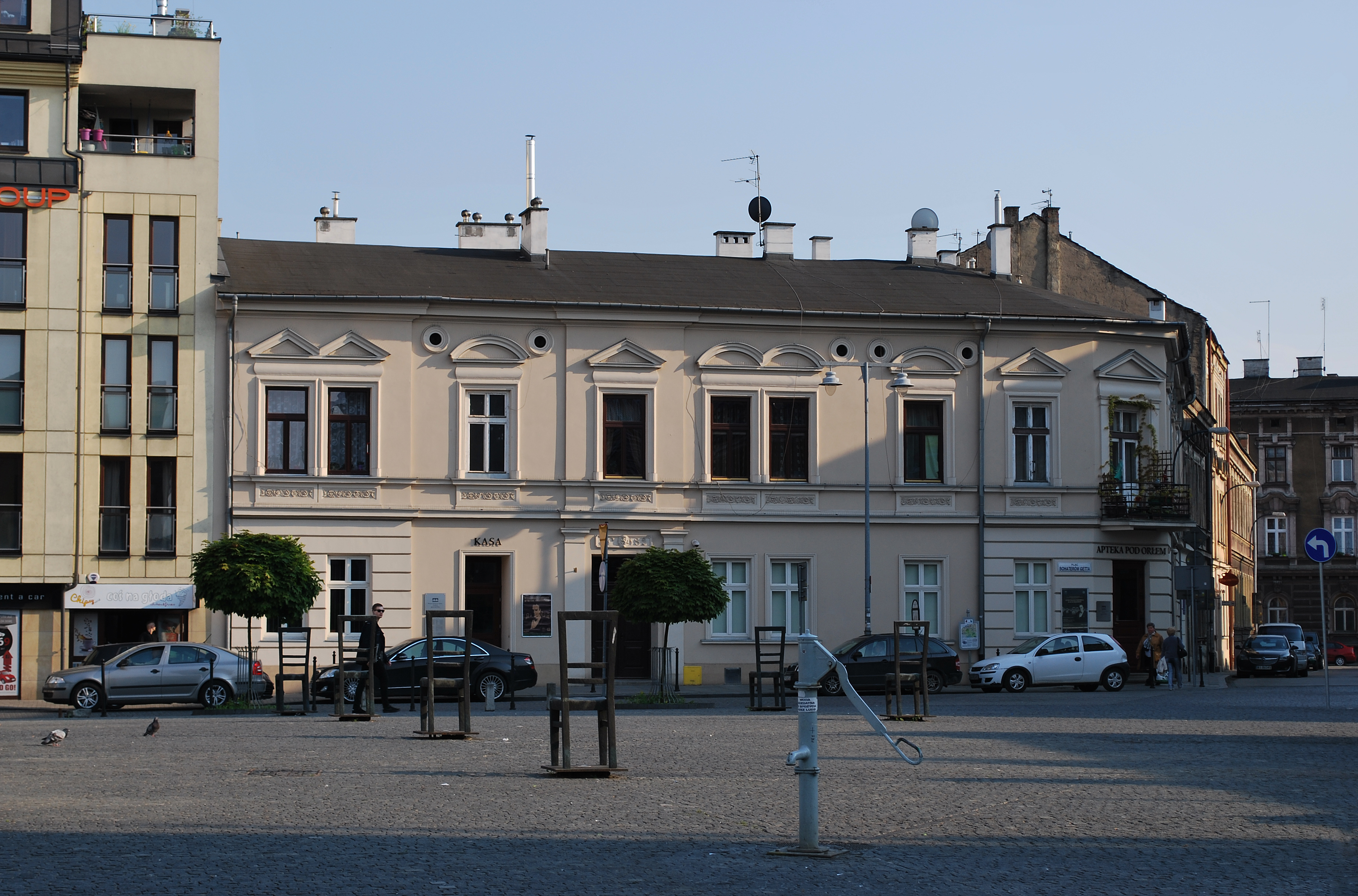 Pharmacy Pod Orlem (under the Eagle), 18 Bohaterow Getta (Ghetto Heroes) square, Podgórze, Krakow, Poland